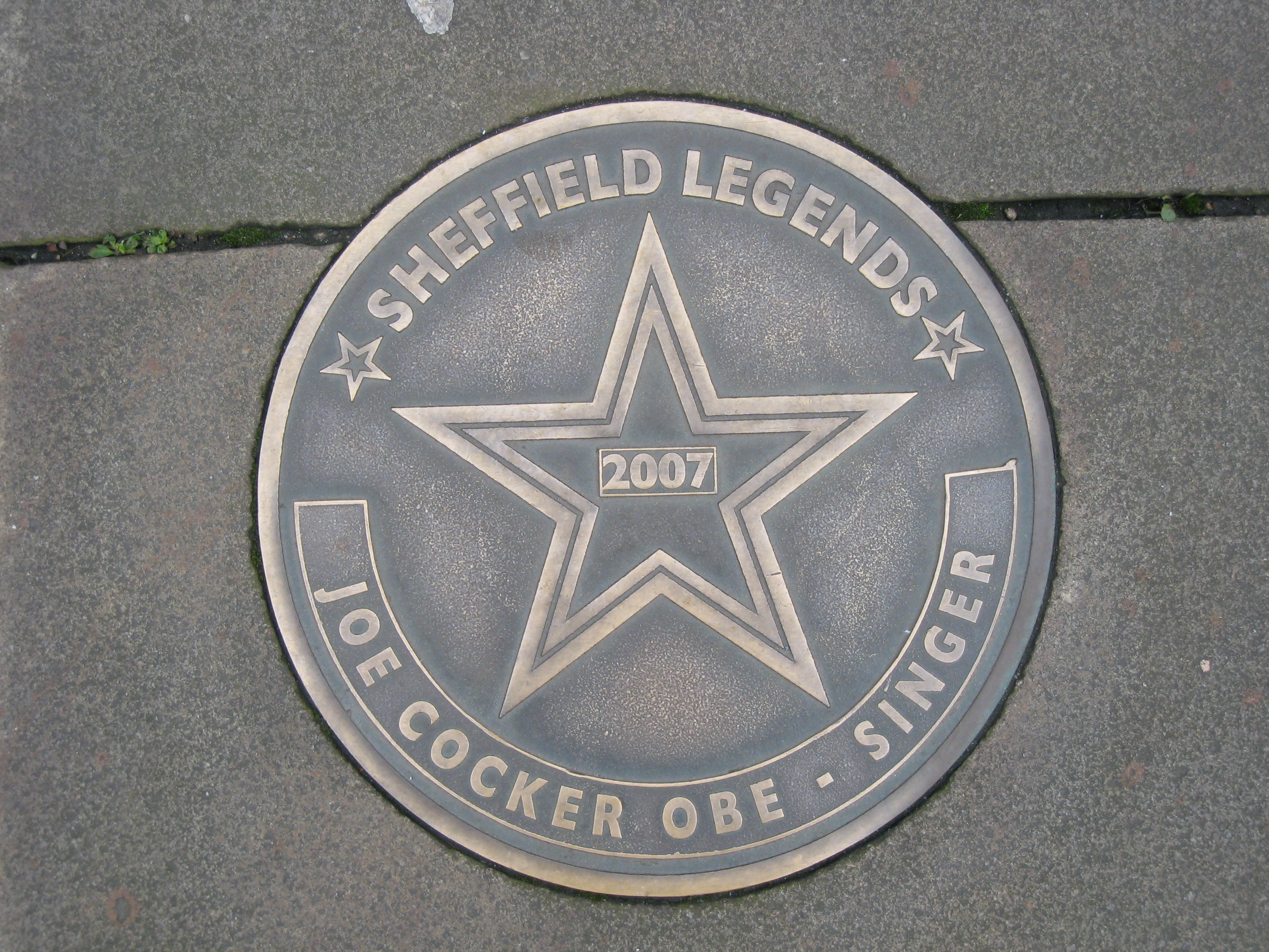 Commemorative star in the pavement outside Sheffield Town Hall: a "walk of fame" for people associated with the city. Joe Cocker.